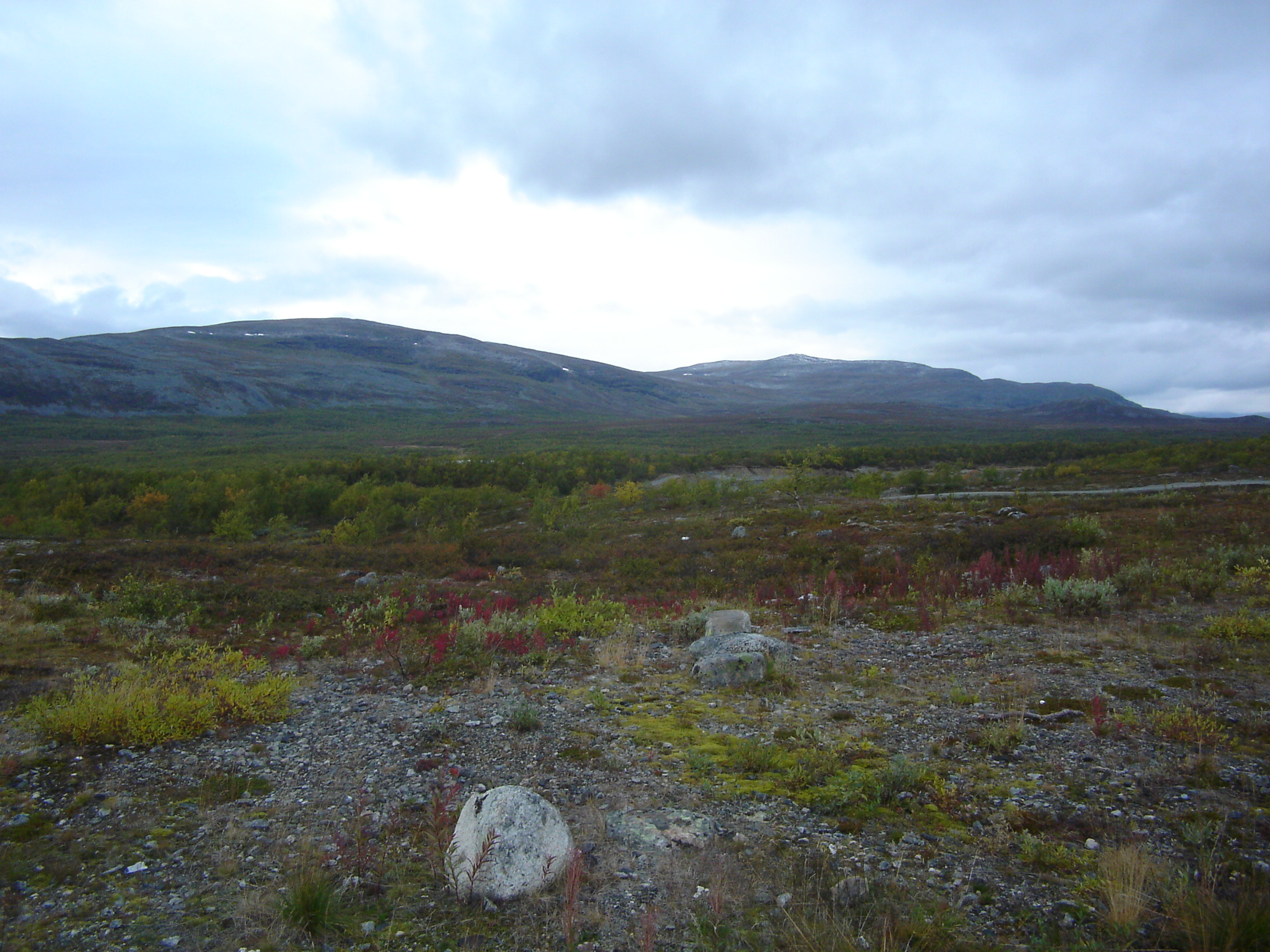 Landscape north of Kilpisjärvi, municipality of Enontekiö, Lapland, Finland